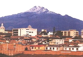 Ciudad de Tulcán en Primer Plano, al fondo, el majestusoso volcán Chiles